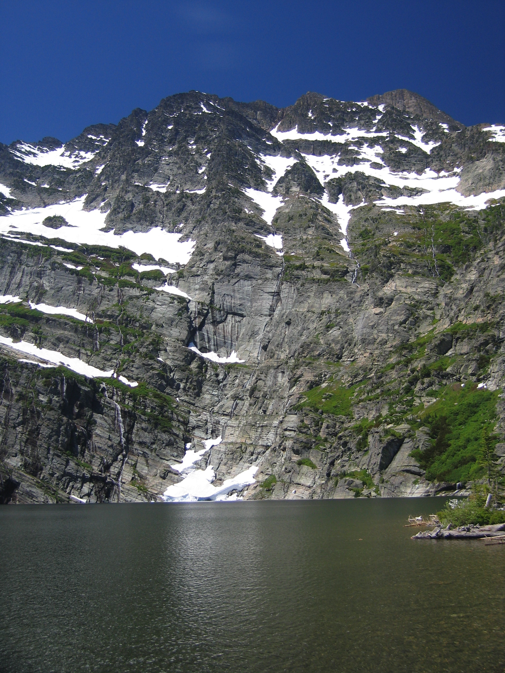 Leigh Lake below Snowshoe Peak, in the Cabinet Mountains Wilderness.